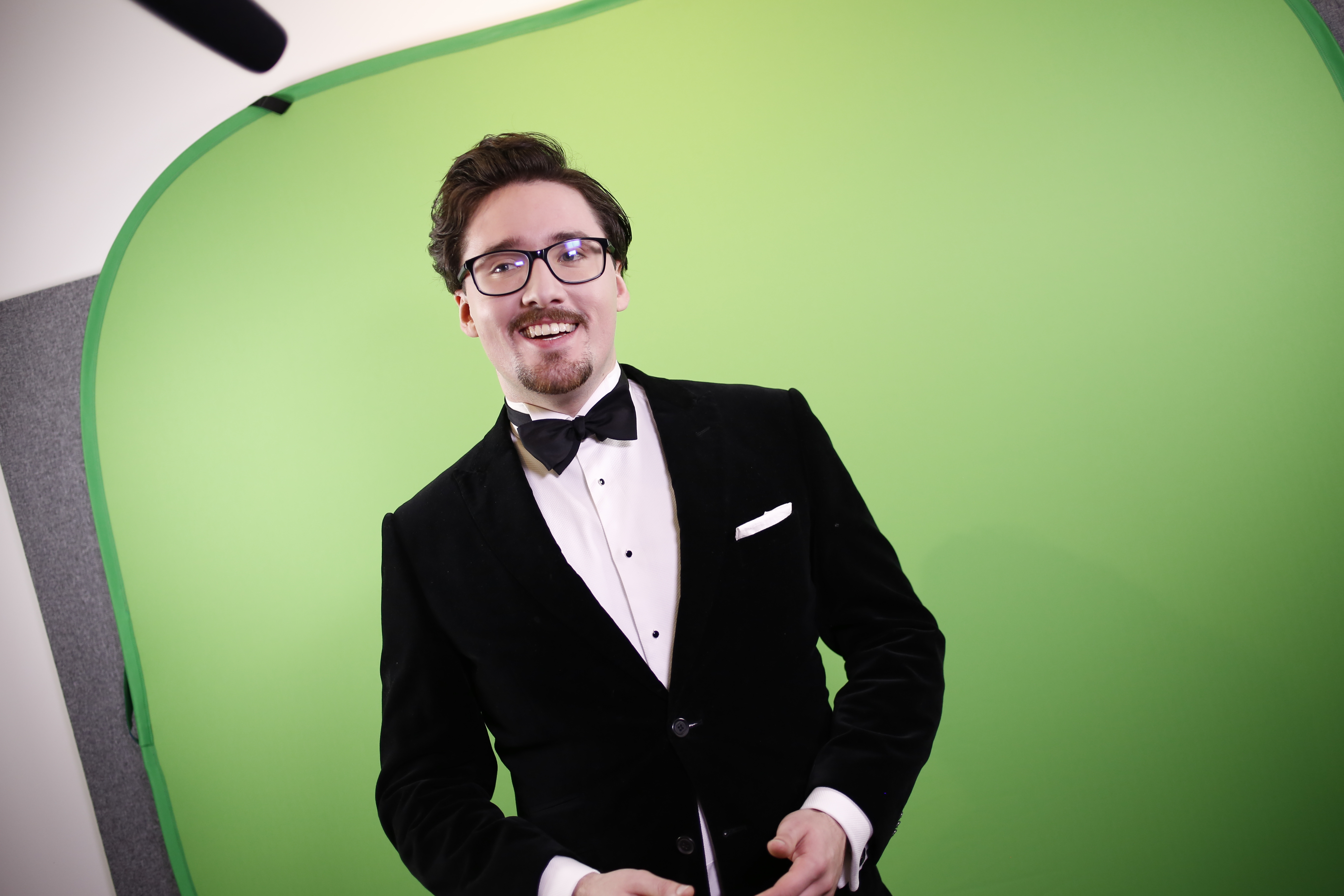 Olly Thorn performing in Philosophy Tube episode "Steve Bannon".